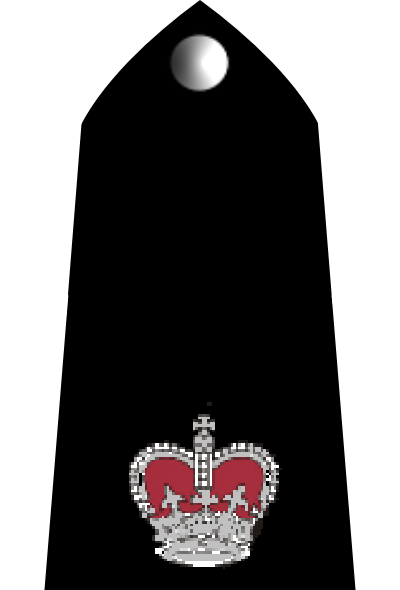 UK Police Superintendent rank marking